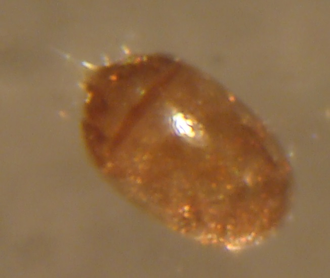 Bee mite Kuzinia laevis (Syn.: Tyrophagus laevis) phoretic deutonymph female mite. Dorsal view. Found phoretic at a Bombus terrestris-complex male.